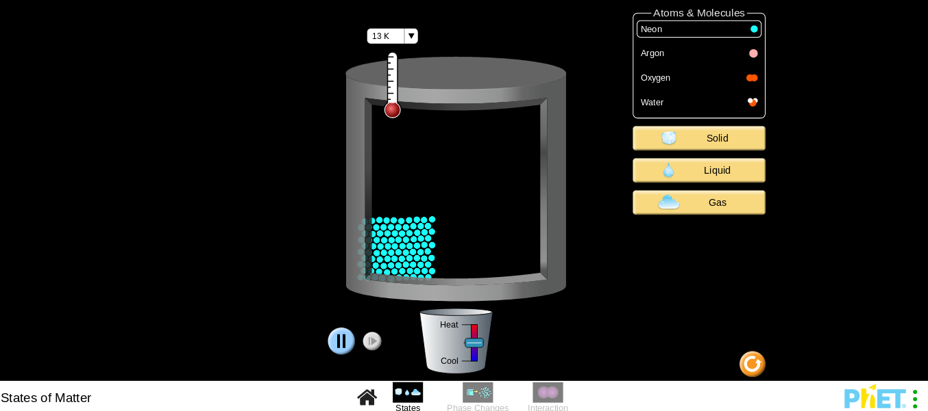 Screenshot of PhET software. Example experiment called states of matter